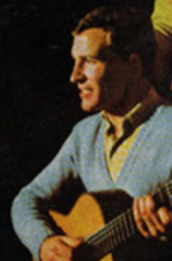 Galo García. Argentina. Folk musician